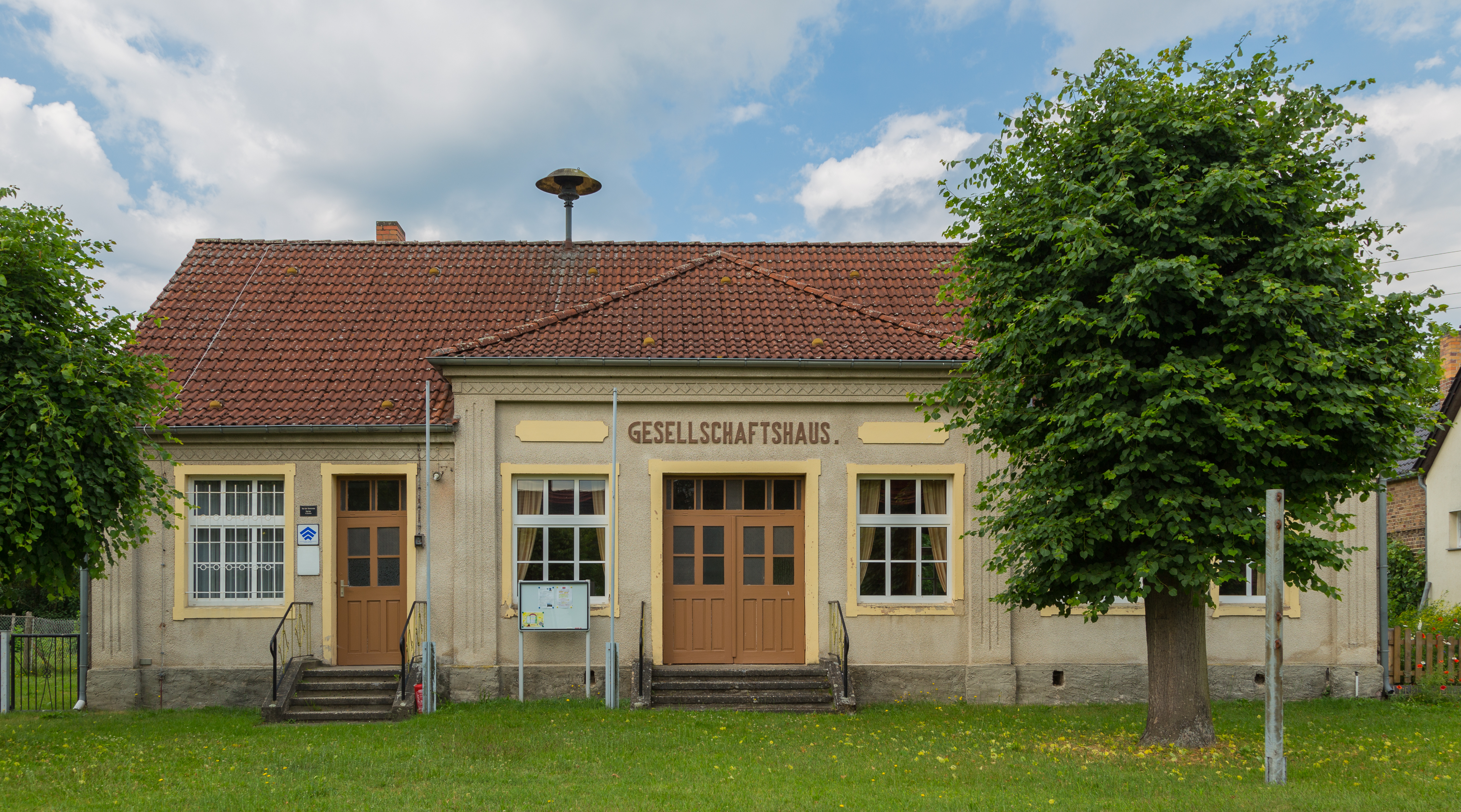 The community centre (Gesellschaftshaus) of Karras, district of Friedland, Landkreis Oder-Spree, Brandenburg, Germany.